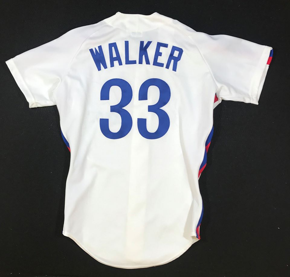 1989-1991 Montreal Expos #33 Larry Walker home jersey lettered and photographed by William F. Henderson who may be contacted through his website thedream.shop